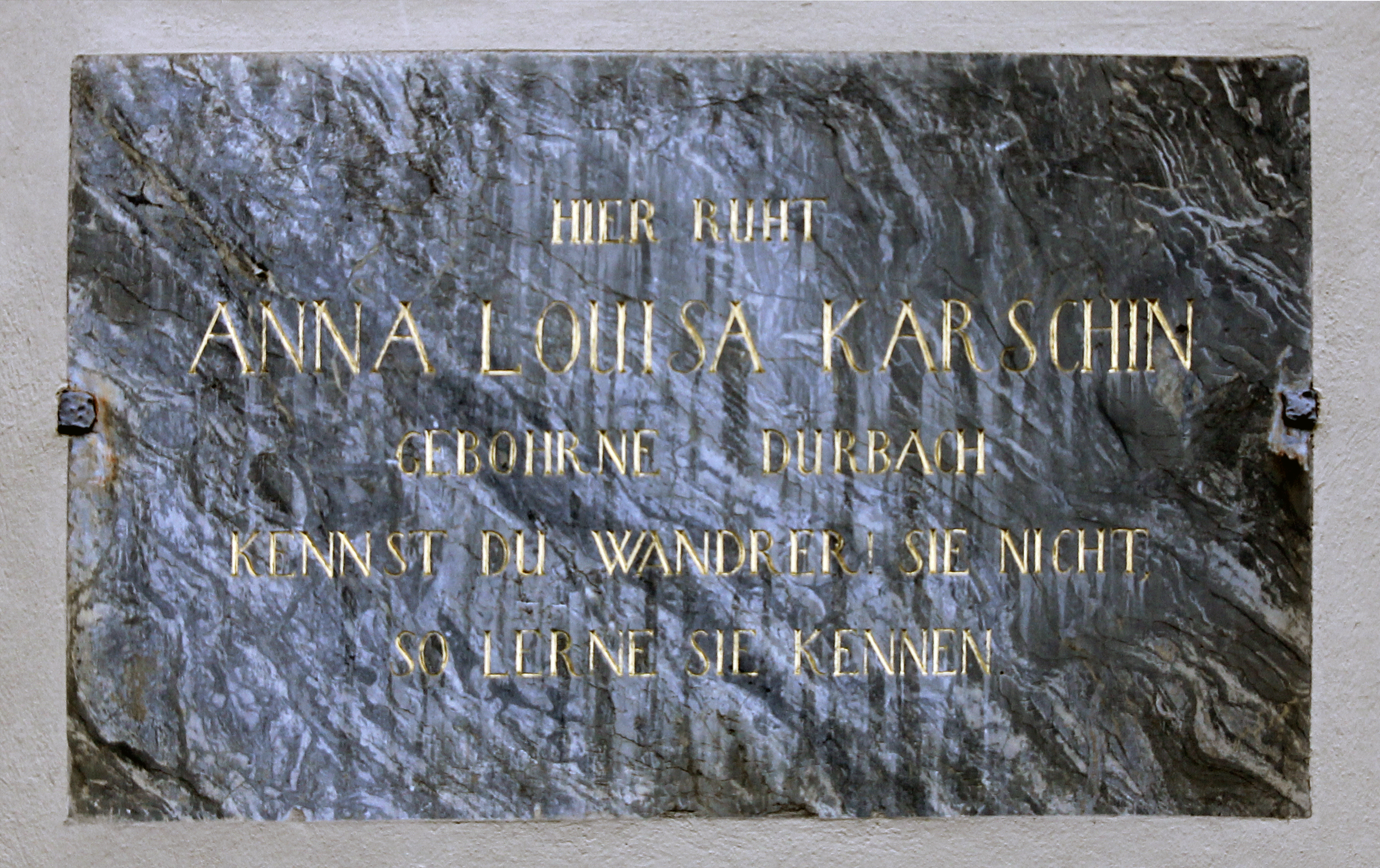 Memorial plaque, Anna Louisa Karsch, Große Hamburger Straße 29, Berlin-Mitte, Deutschland